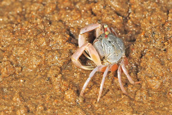 Soldier Crab Dotilla myctiroides, Devbagh, Karwar